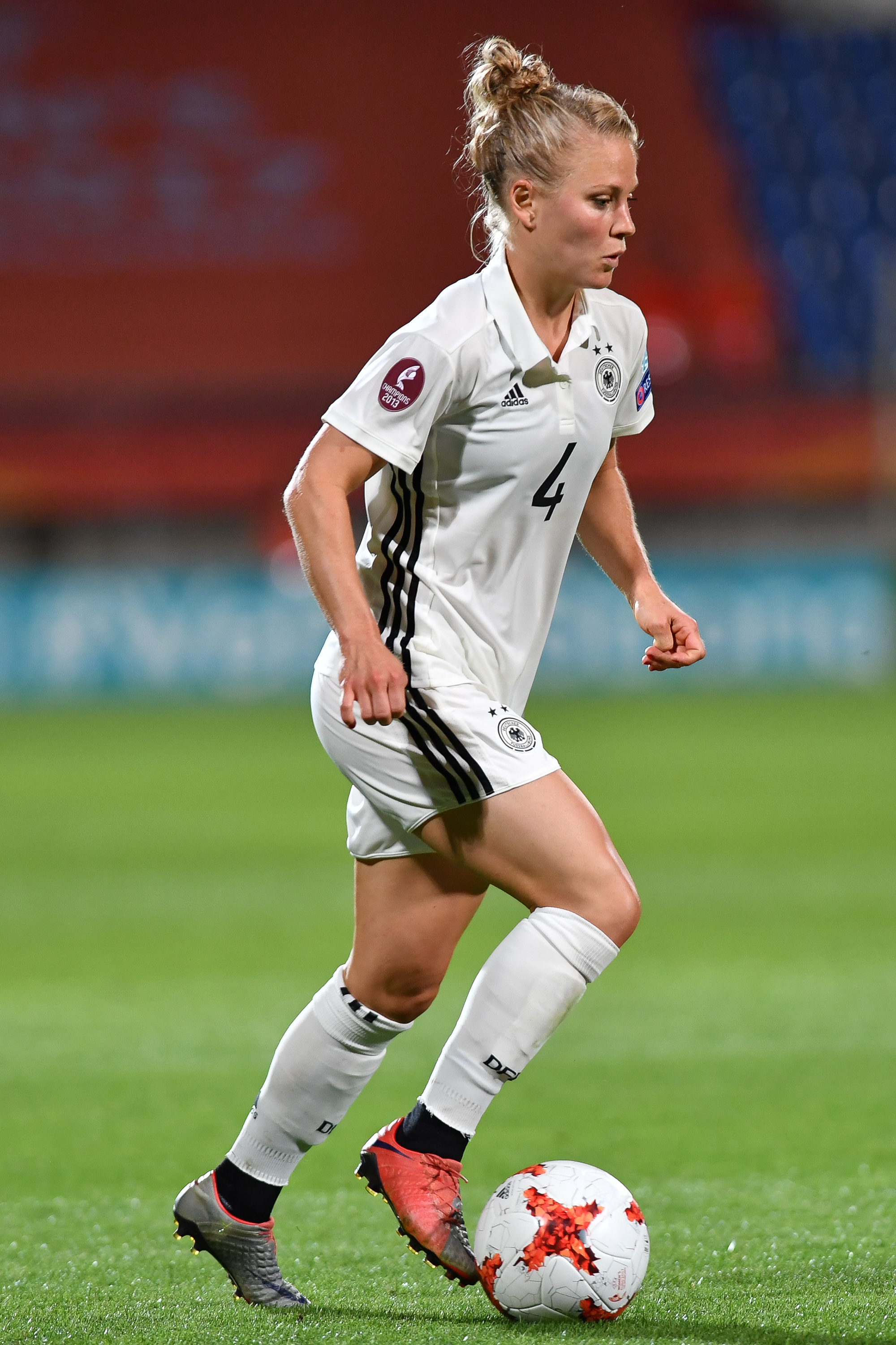 21/7/2017, Tilburg, Netherlands, sports, soccer, UEFA Women's Euro 2017 - Germany vs Italy.